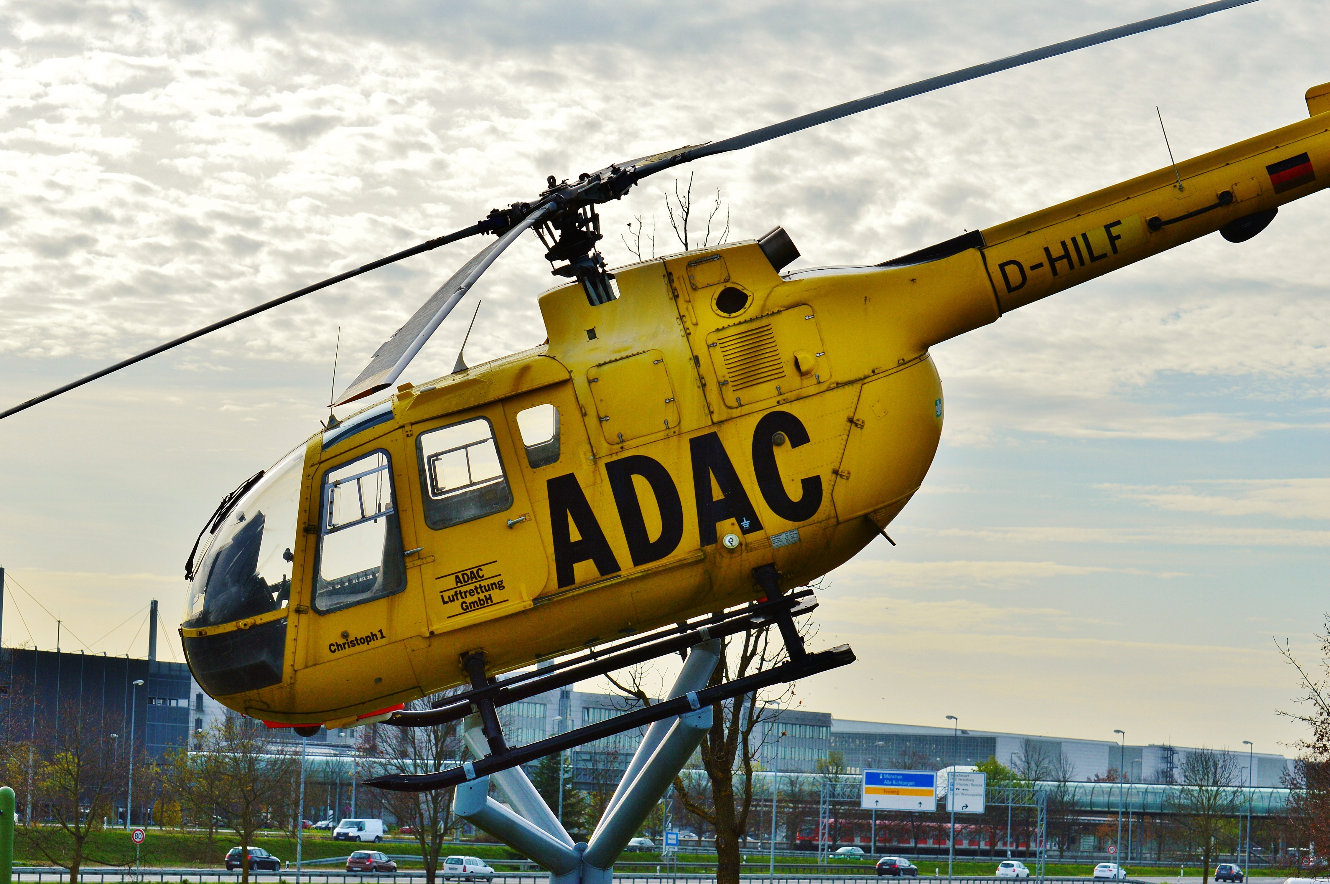 Rescue helicopter in MUC